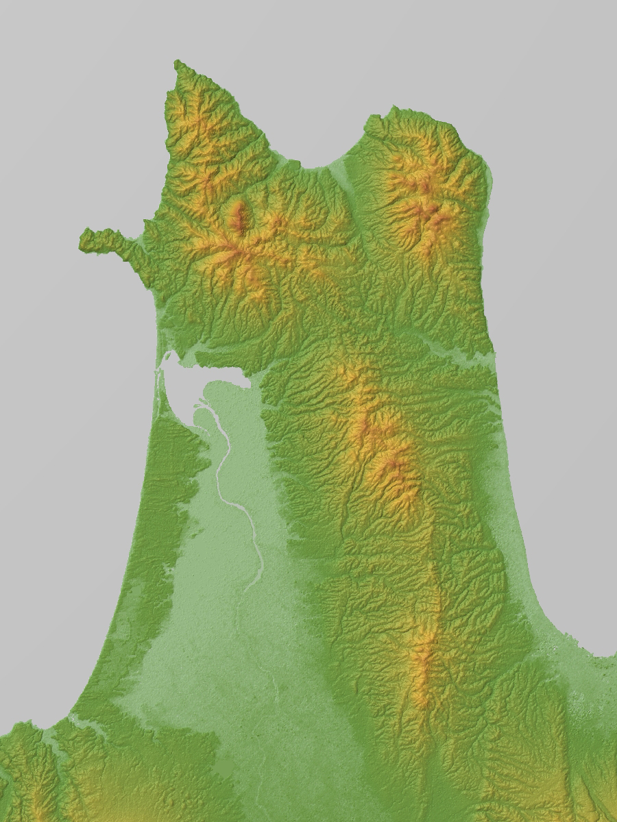 Relief map of Tsugaru Peninsula, Aomori Prefecture, Honshu, Japan.